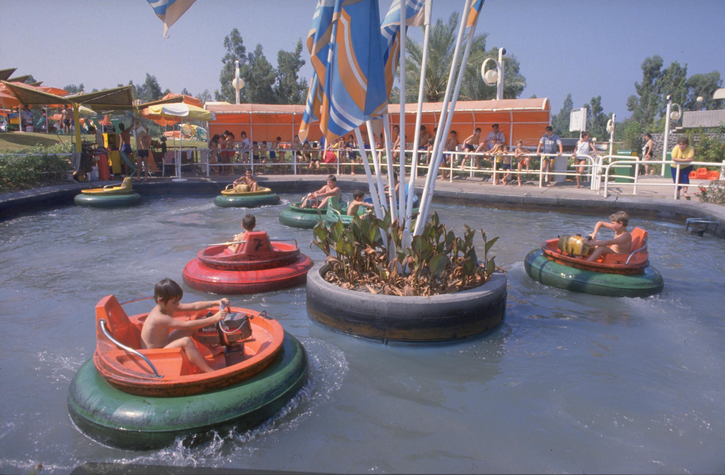 The Luna Gal Water Park near Kibbutz Ein Gev on the Sea of Galilee.